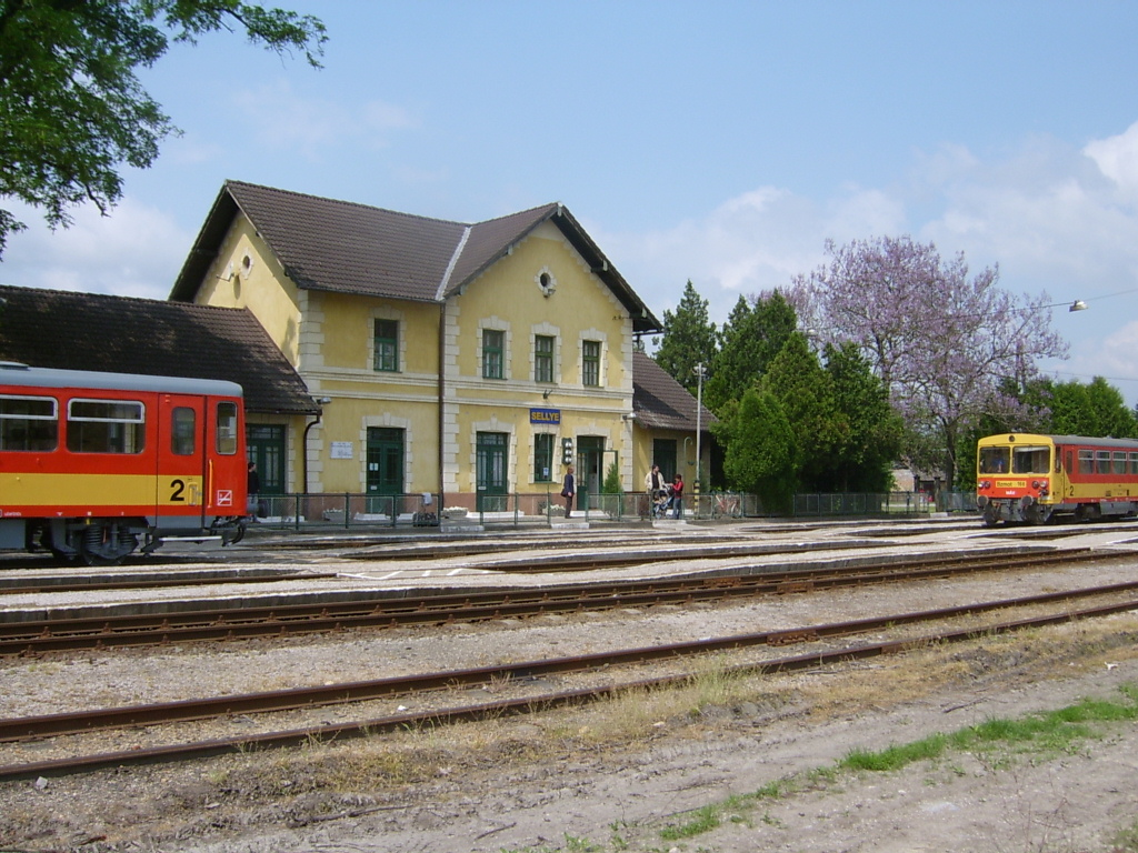 Railway station of Sellye, Baranya county, Hungary